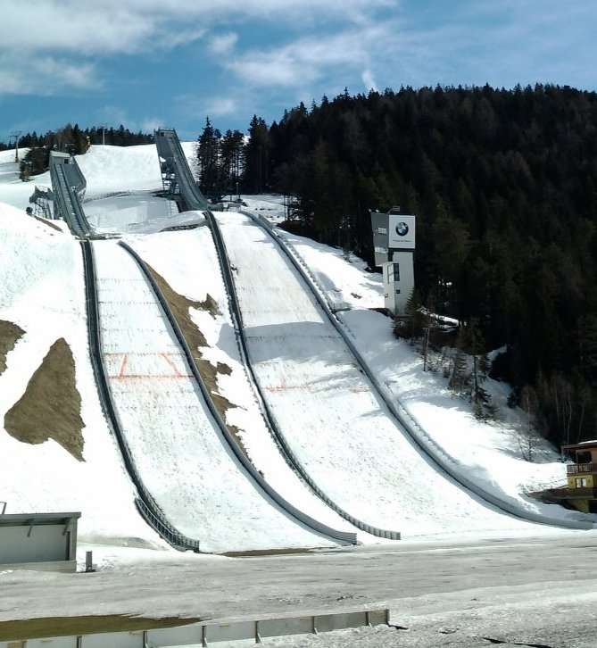 Seefeld, Tirol: ski jumping hill Toni Seelos